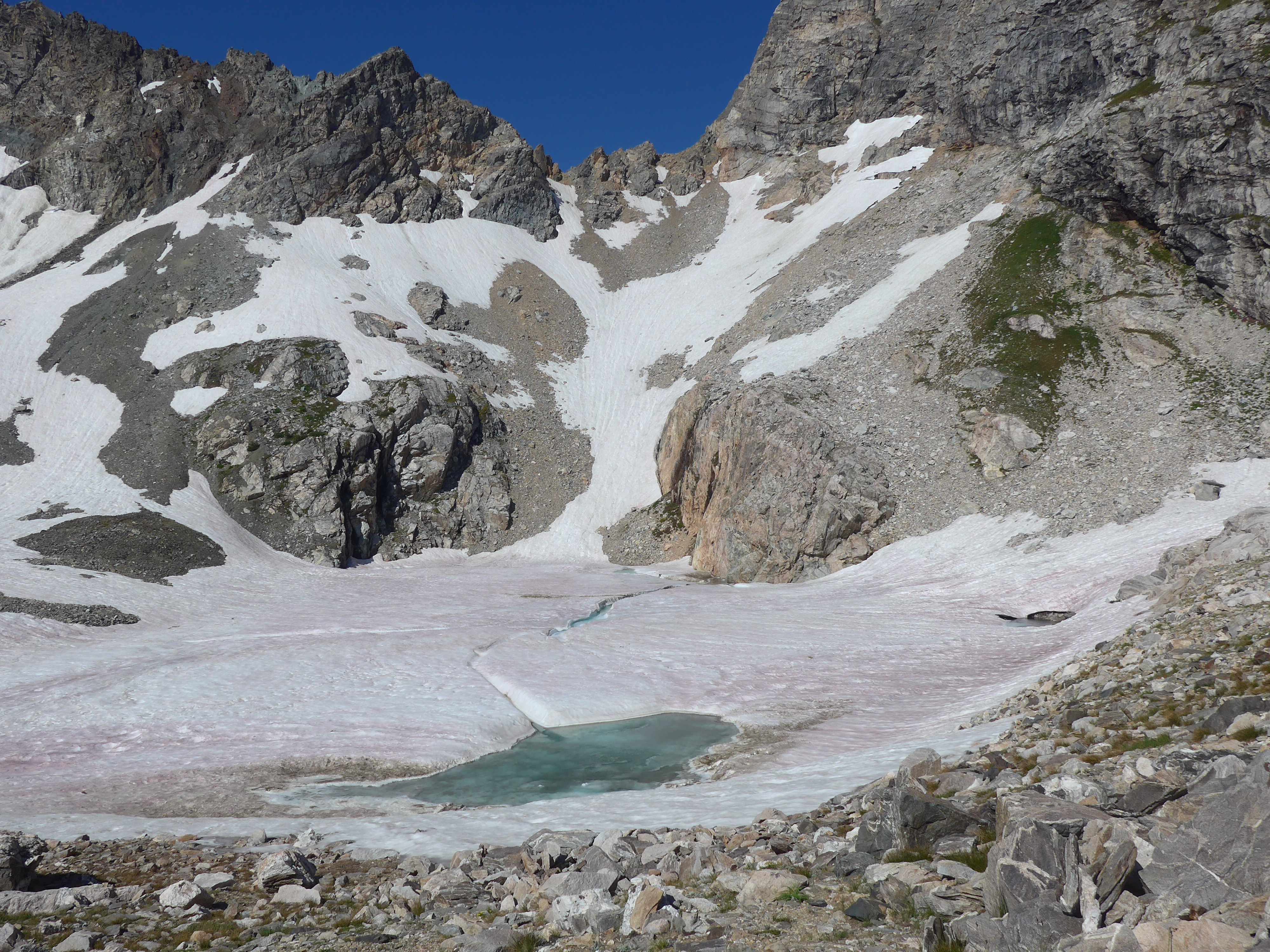 Timberline Lake from northeast in August 2017, behind in the middle the saddle between Buck Mountain (left) and Static Peak (right)